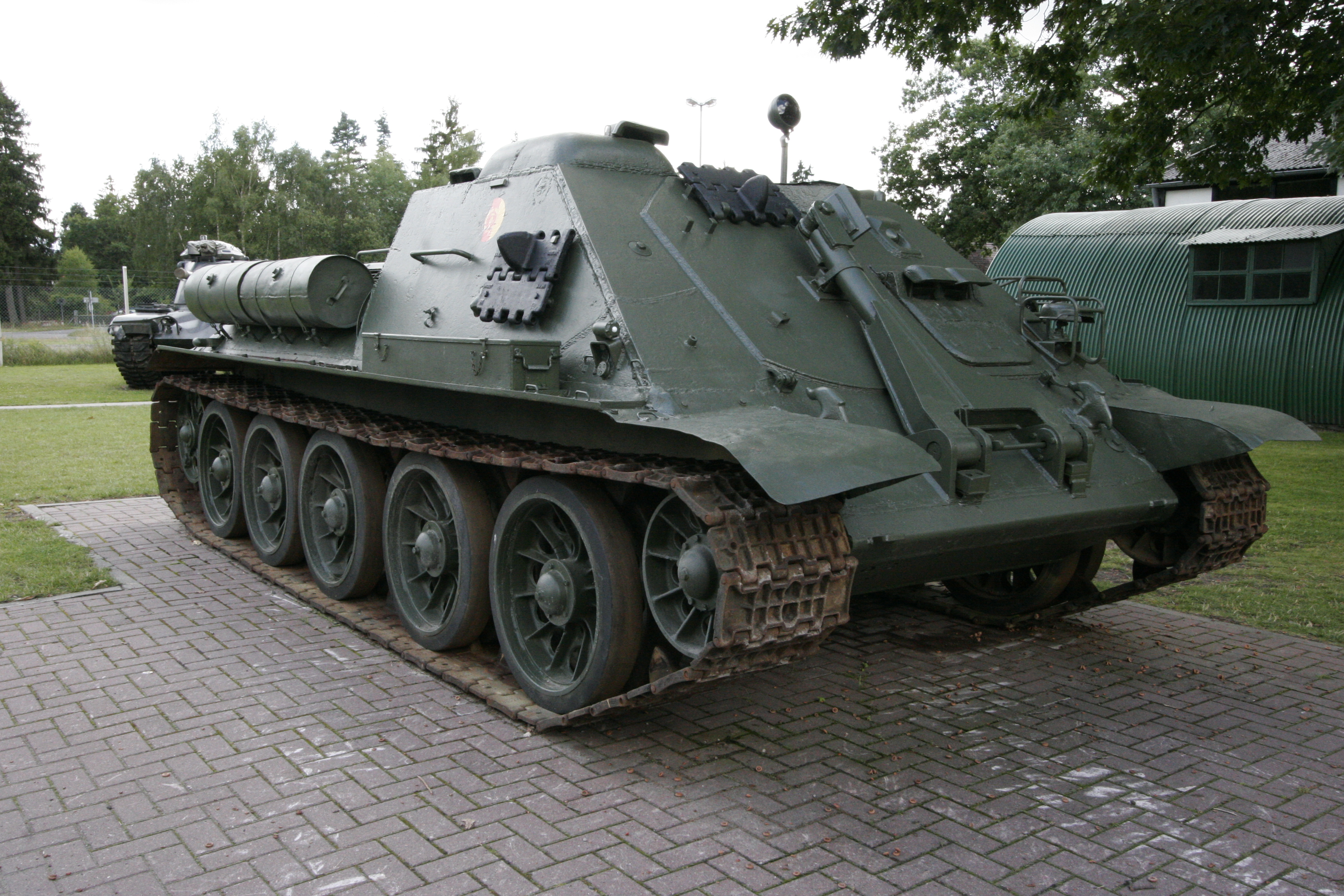 SU-85 based Armoured Recovery Vehicle on display at the Deutsches Panzermuseum Munster , Germany.